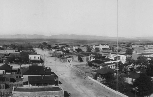 1909 photo of Tombstone from the roof of the Cochise County Courthouse, looking up Third Street toward the north.